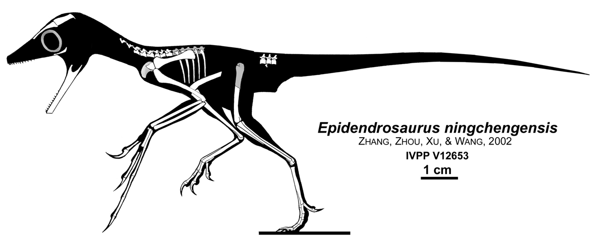 Skeletal reconstruction of Scansoriopteryx heilmanni (formerly Epidendrosaurus ninchengensis).